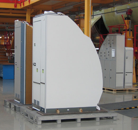 Toilet block of an Airbus A320 family aircraft before installation.